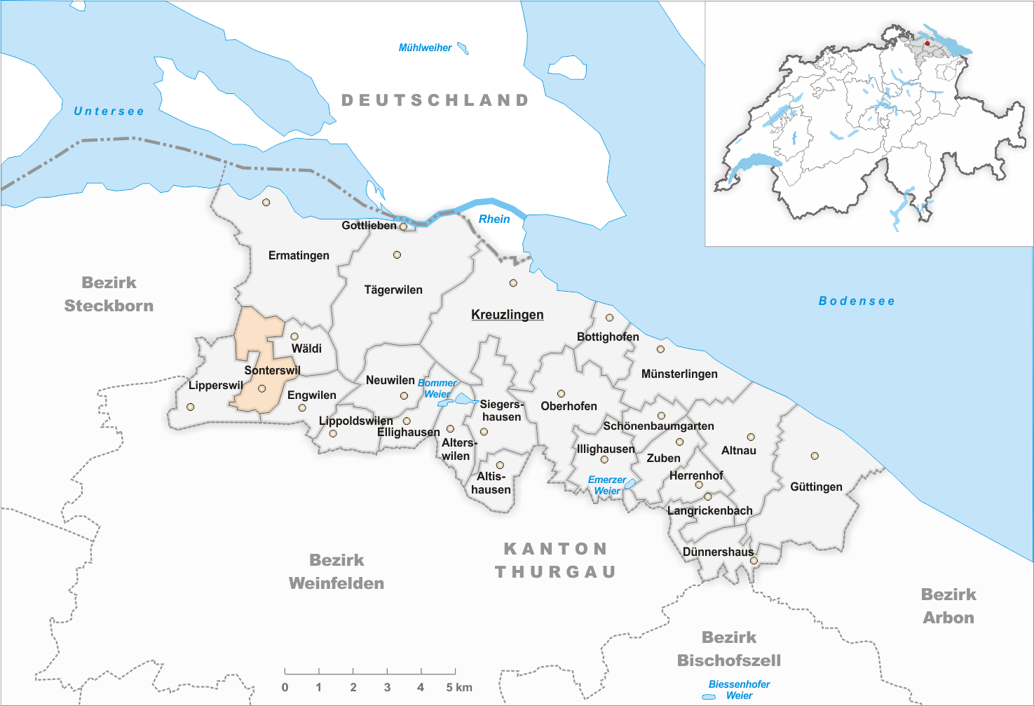 Municipality Sonterswil